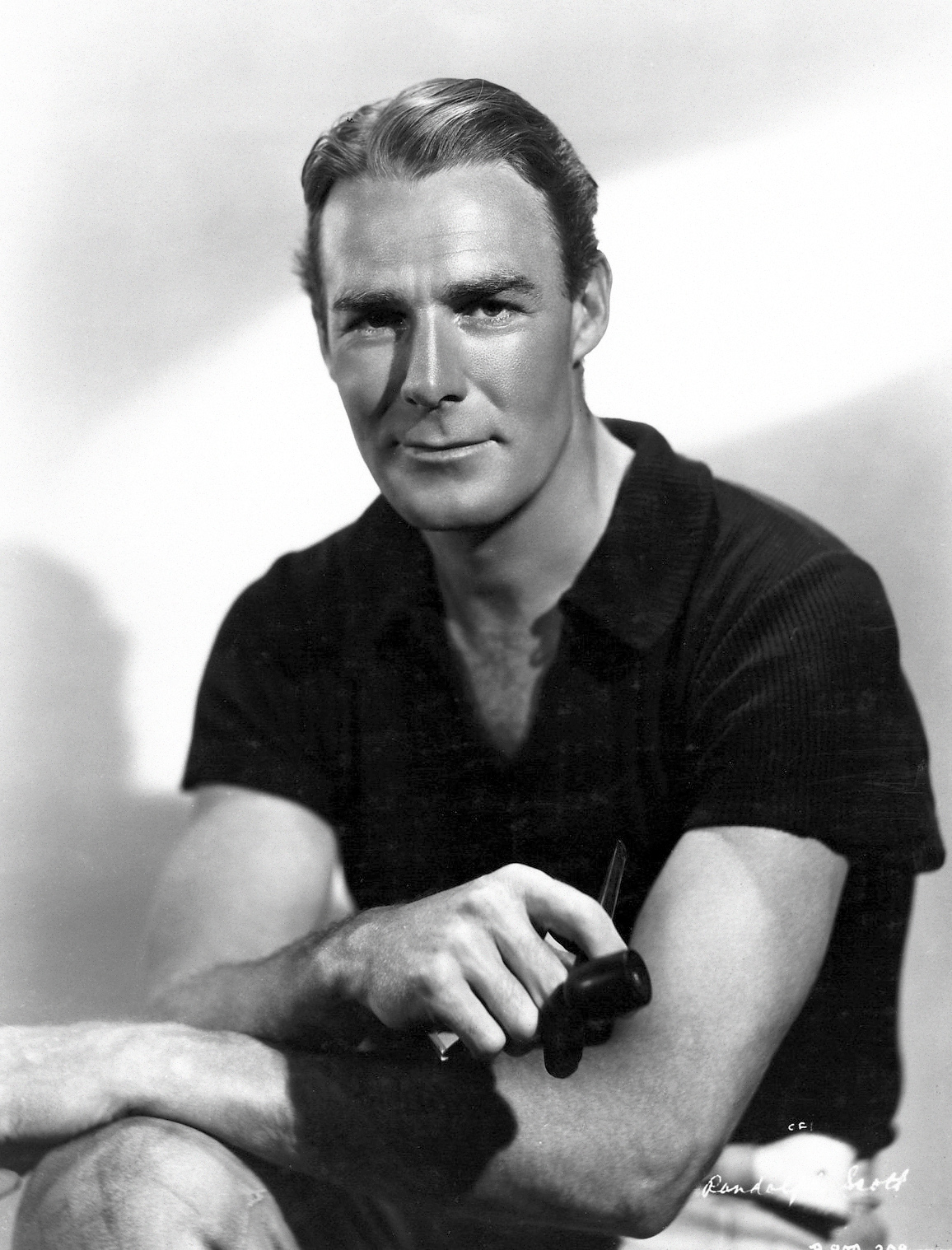 Original studio publicity photo of Randolph Scott. See also film still.